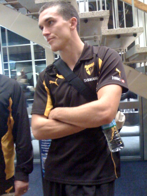 Clinton Young at Launceston Airport, Tasmania, Australia. Photo taken with Apple iPhone on 17 of May 2008. Photo shows Clinton waiting to board flight back to Melbourne following victory against Port Adeliade.